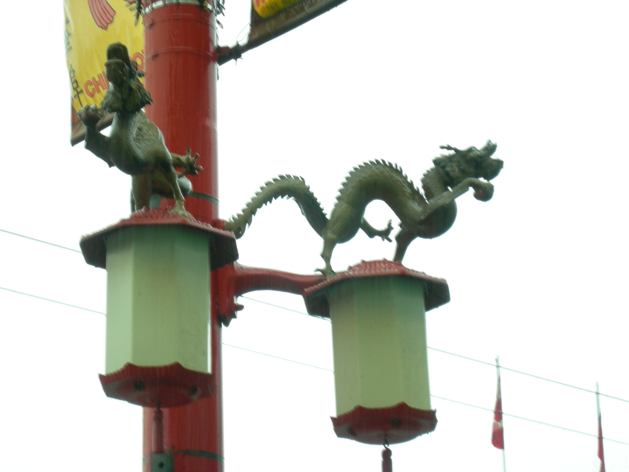 Dragon ornamentation on lantern street lights, Chinatown, Vancouver, British Columbia.